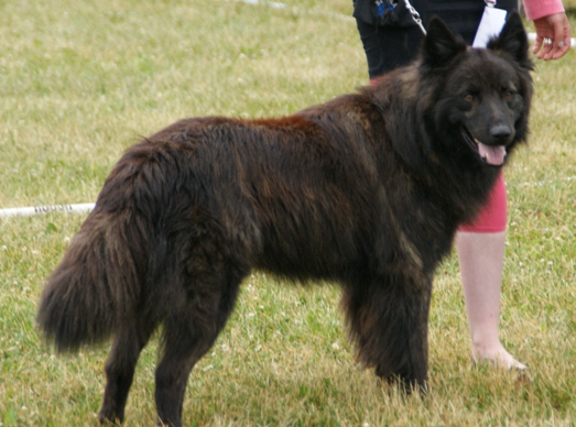 Dutch Shepherd, long-haired variation.